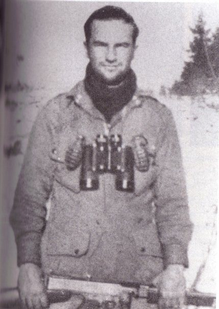 Captain Ronald Speirs